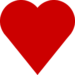 Red heart symbol